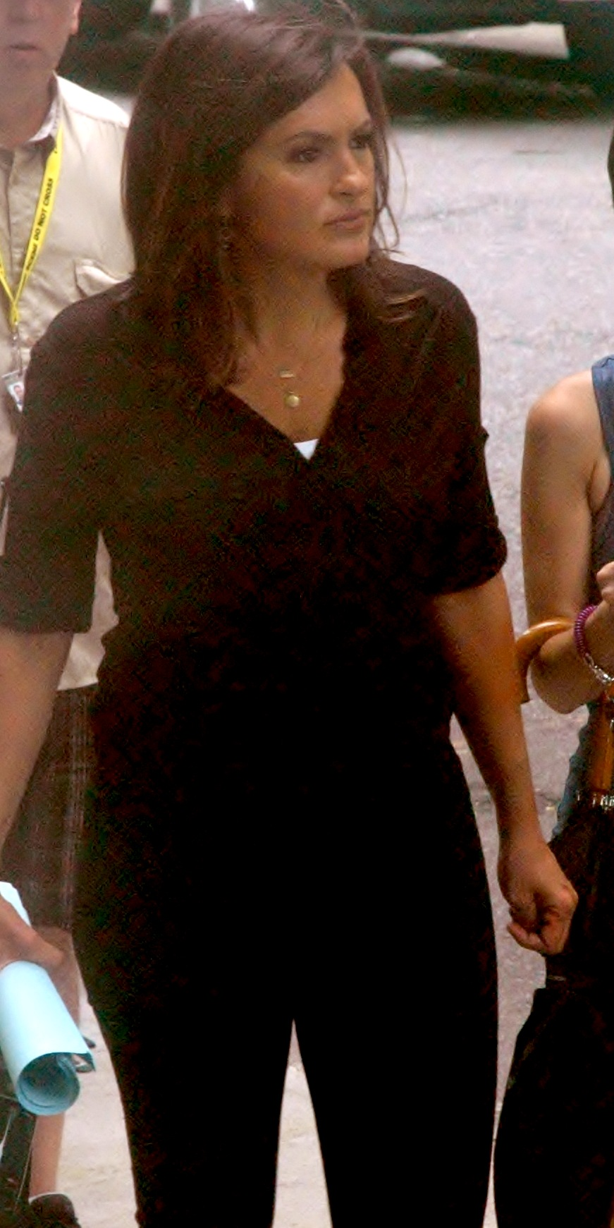 Actress Mariska Hargitay on set of season 12 of Law & Order: Special Victims Unit filming in Morningside Heights, NY.